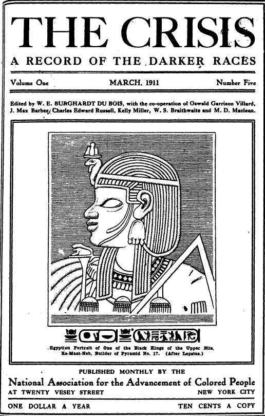 Cover of The Crisis (volume 1 issue 5, March 1911), with black pharoah illustration.